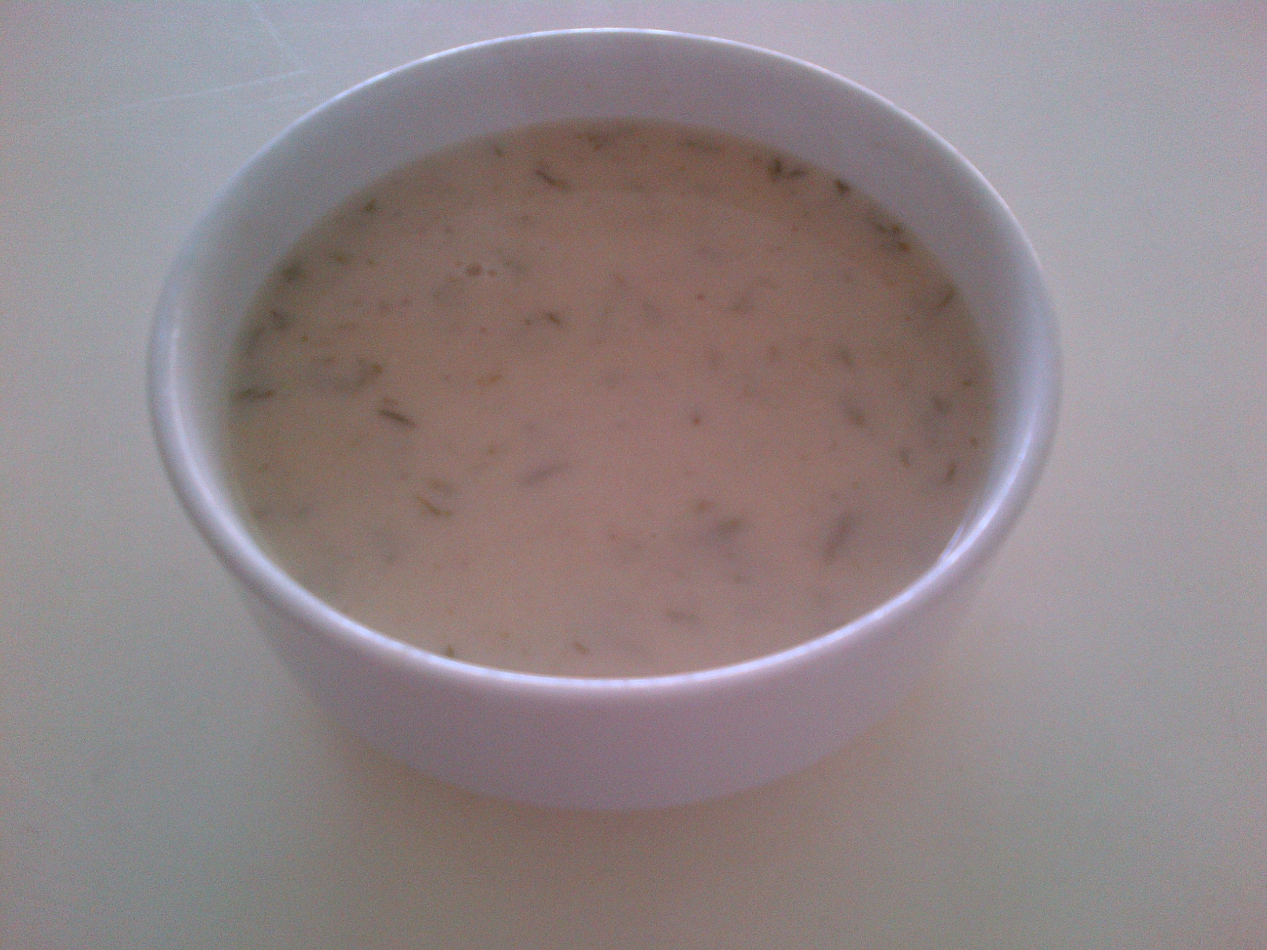 A mushroom soup with fresh dill leaves, in Turkey.